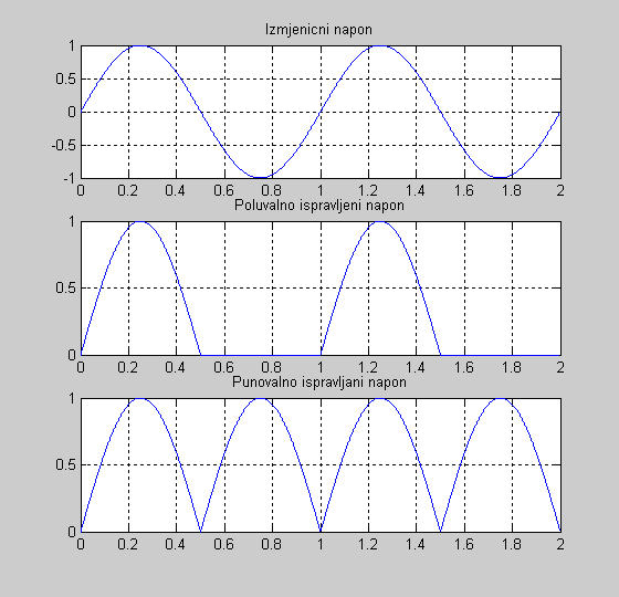 Diagram of AC signal, half-wave rectified signal and full-wave rectified signal. Figure made in MATLAB